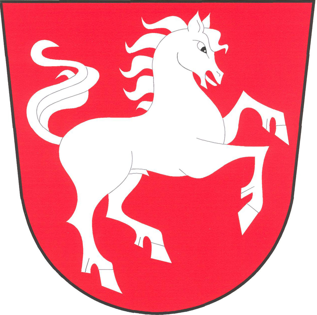 Official heraldry of the Polen municipality.